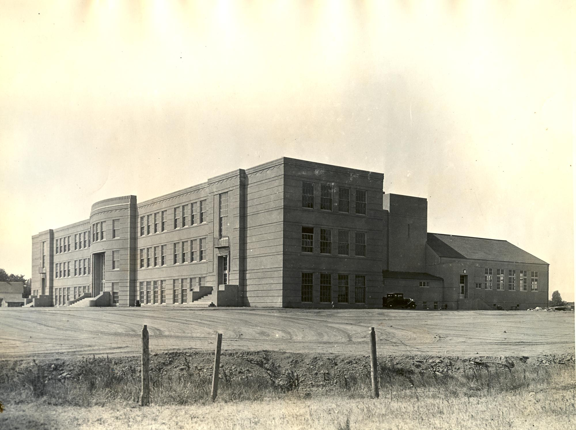 Original Collection: MSS - J. Kenneth Munford Collection You can find this image by searching for the item number by clicking here. Want more? You can find more digital resources online. We're happy for you to share this digital image within the spirit of The Commons; however, certain restrictions on high quality reproductions of the original physical version may apply. To read more about what “no known restrictions” means, please visit the Special Collections & Archives website, or contact staff at the OSU Special Collections & Archives Research Center for details.